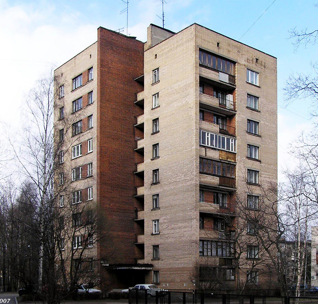 Nadyozhin house. Saint Petersburg